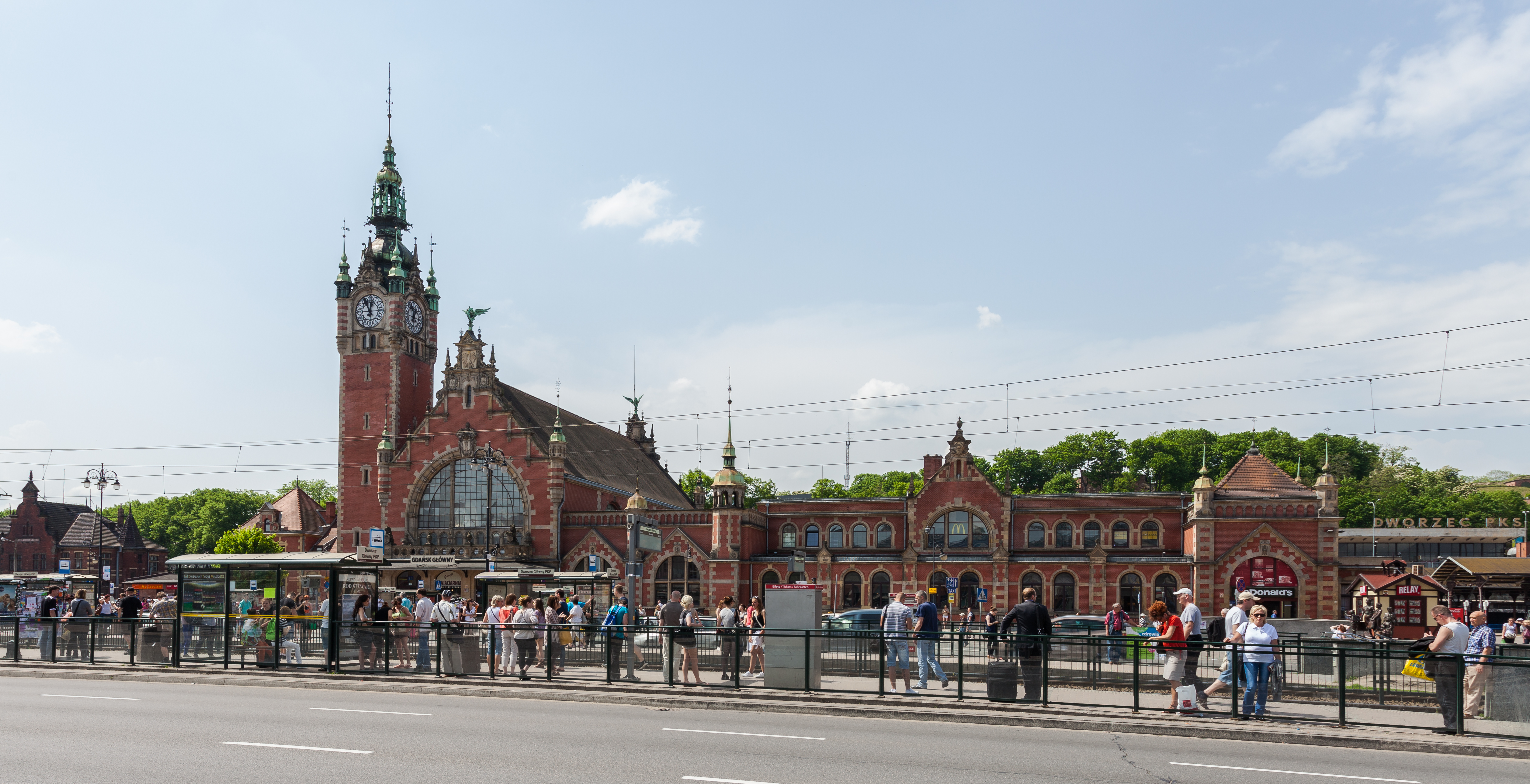 Central Railway Station, Gdansk, Poland